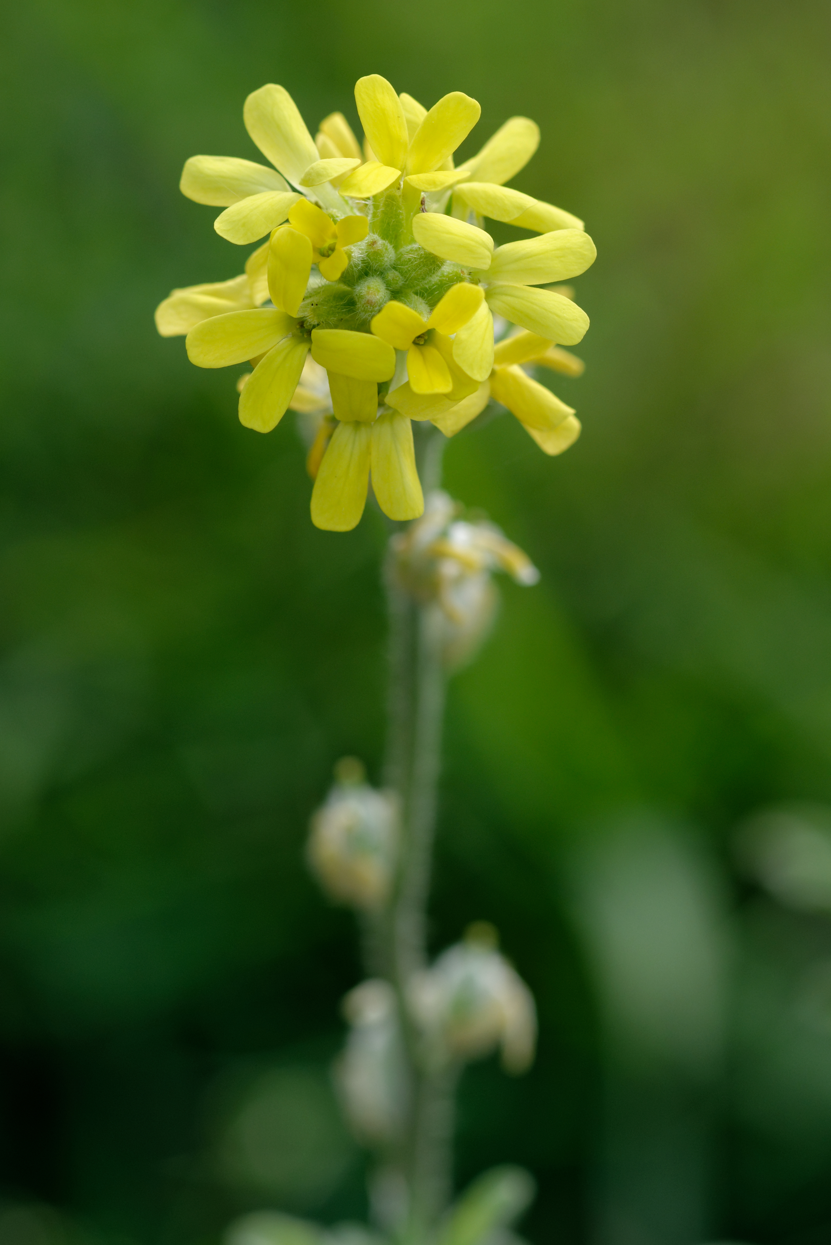 Roman shield (Fibigia clypeata), botanic school of the Jardin des Plantes of Paris.